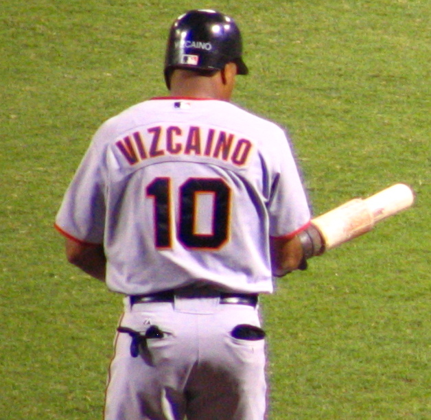 Jose Vizcaino (left) and Randy Winn with the San Francisco Giants during a 2006 game against the Washington Nationals at RFK Stadium